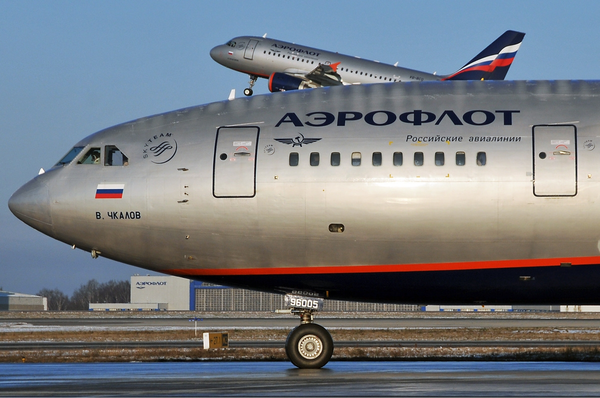 Aeroflot Ilyushin Il-96-300 "Valeriy Chkalov"